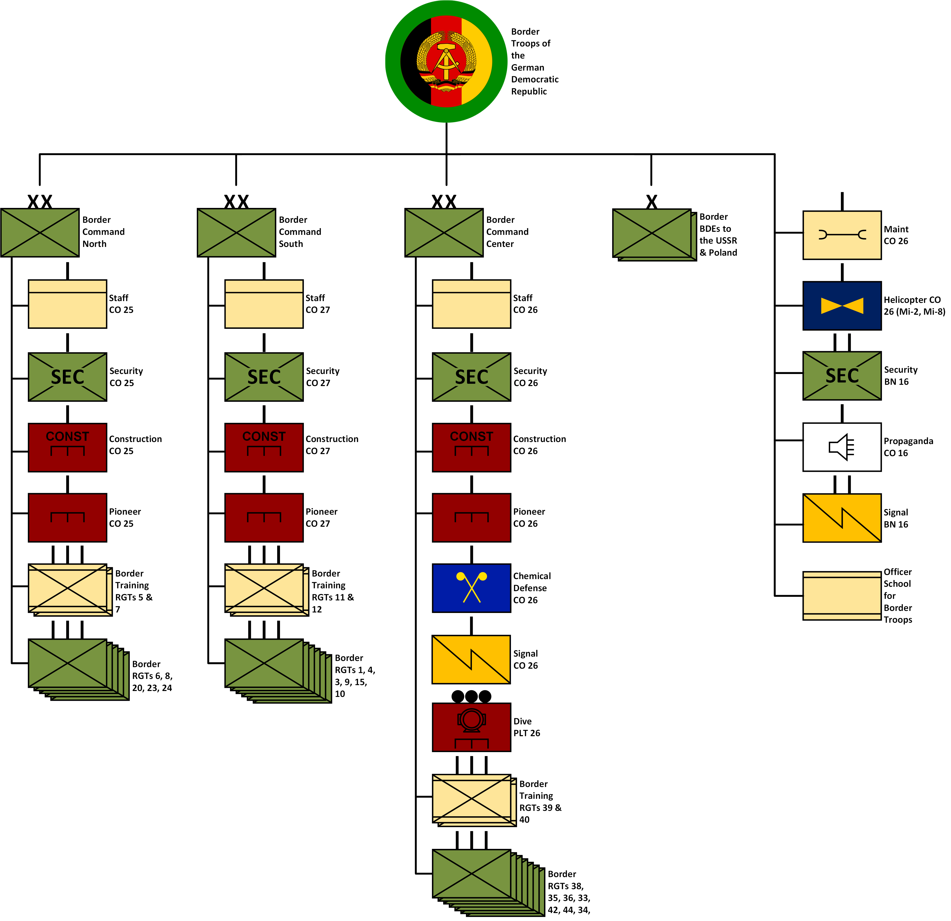 Organization of the German Border Troops circa 1988